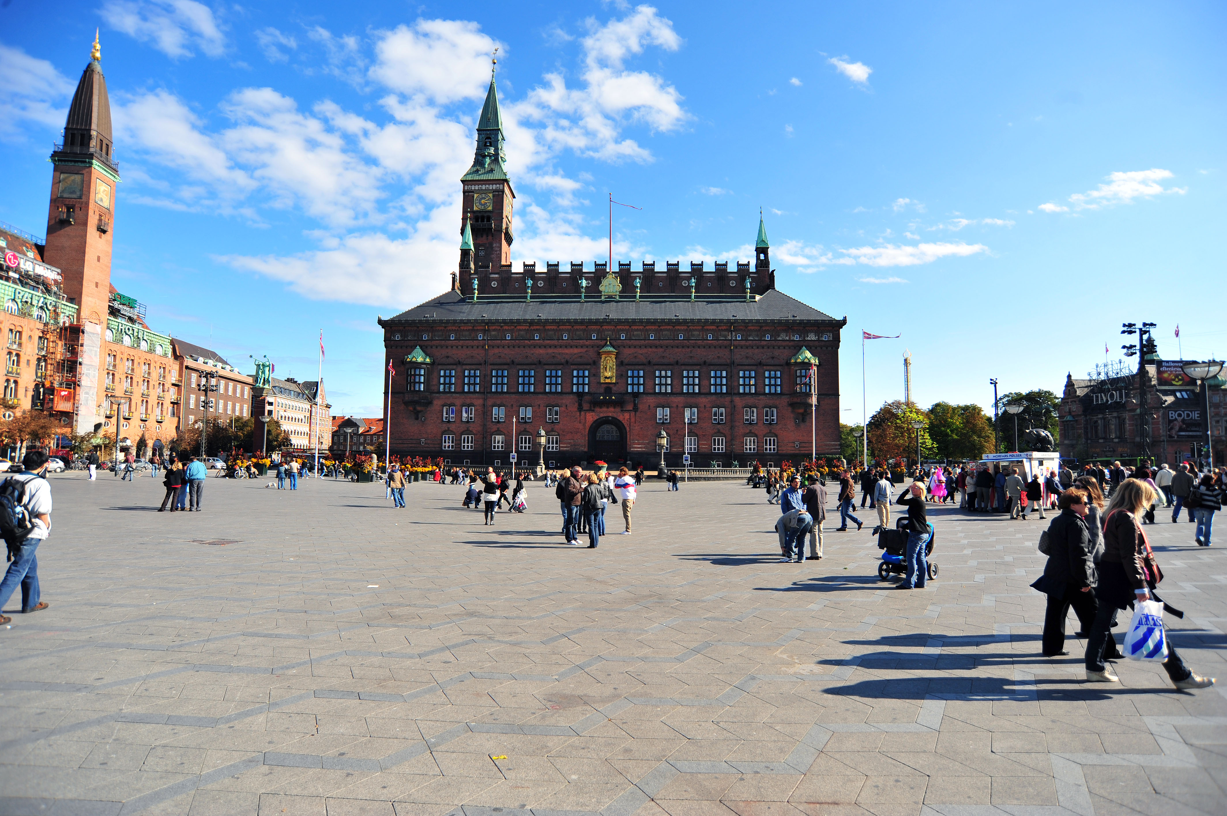 Picture of the main square in Copenhagen - Rådhuspladsen.